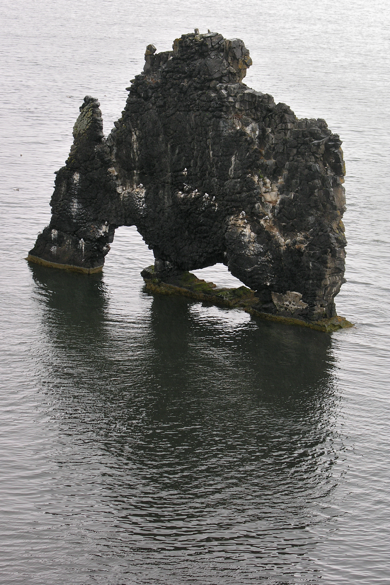 Iceland, impressions along road 711